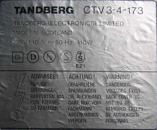 CTV 3